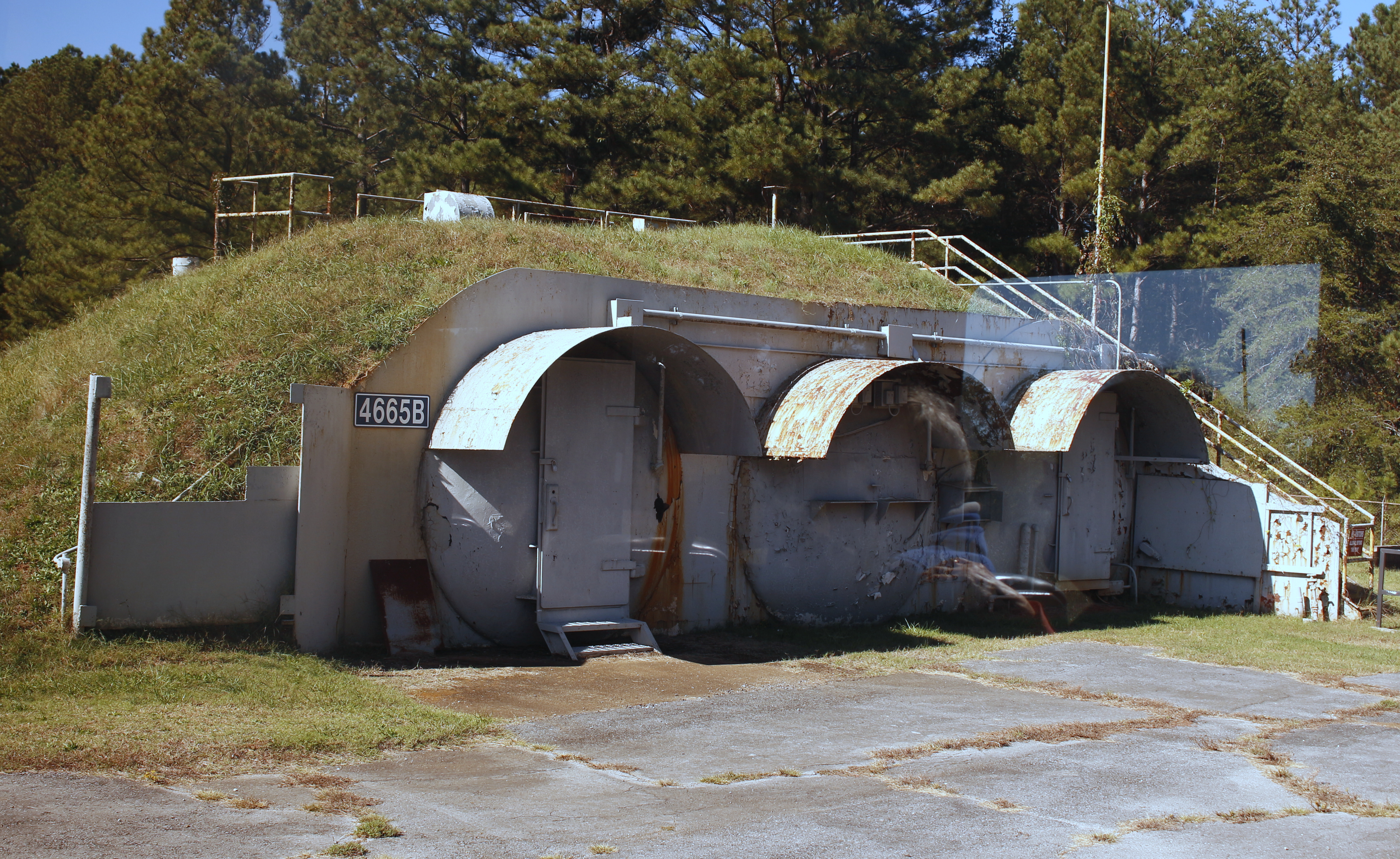 the control room for the Redstone Test Stand constructed from recycled railroad tanker cars